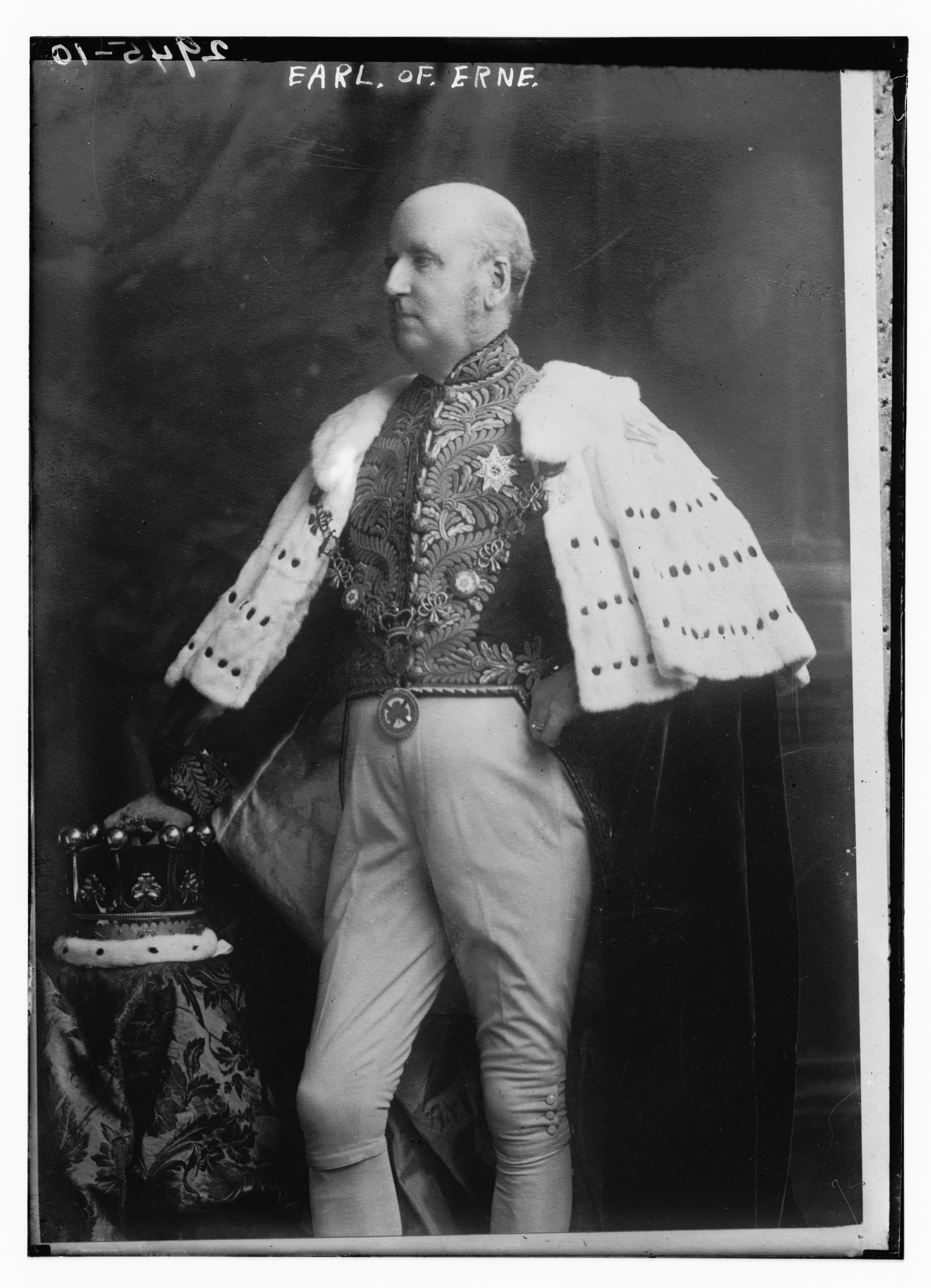 Title: Earl of Erne Abstract/medium: 1 negative : glass ; 5 x 7 in. or smaller.